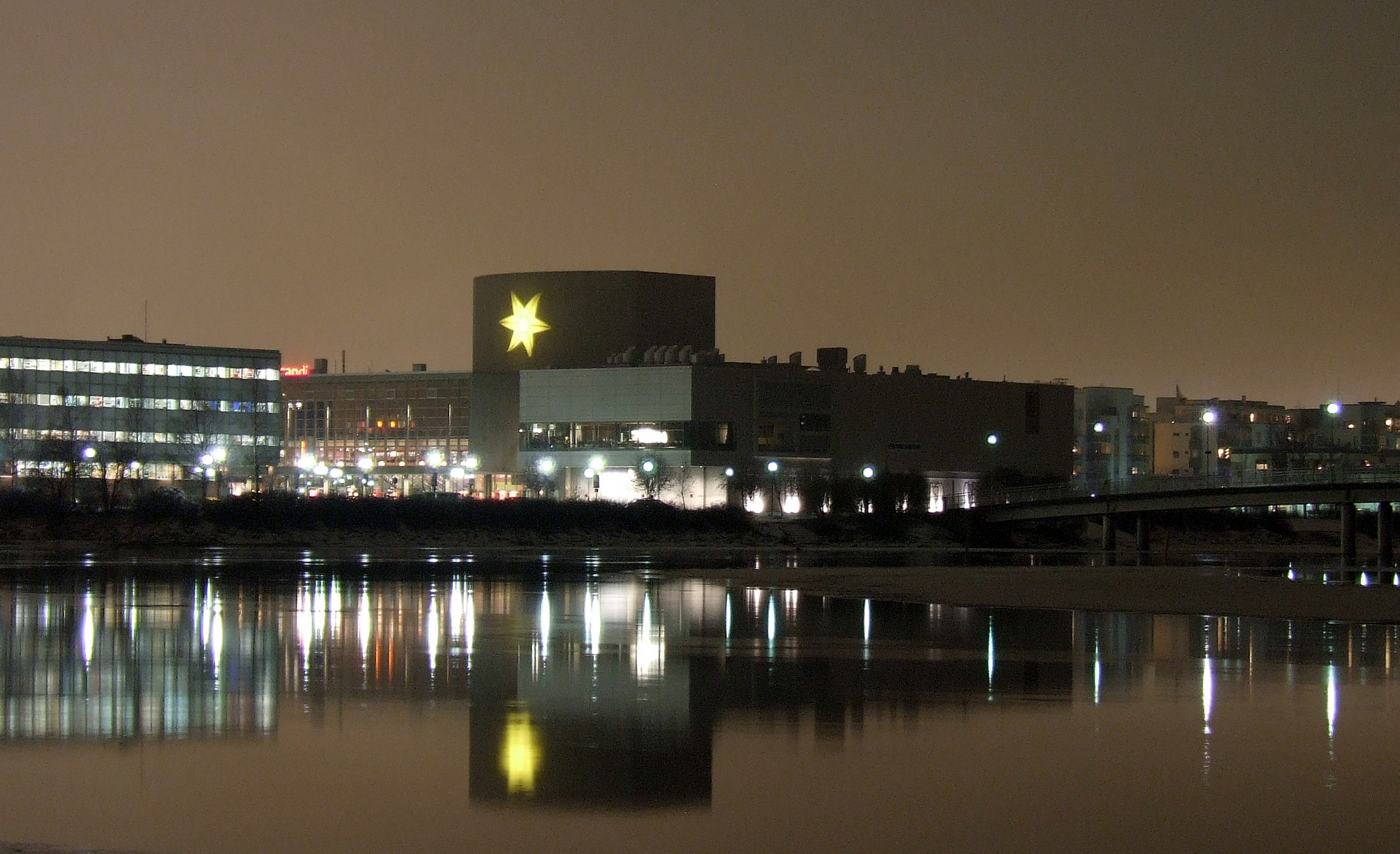 The Oulu City Theatre building in December night.